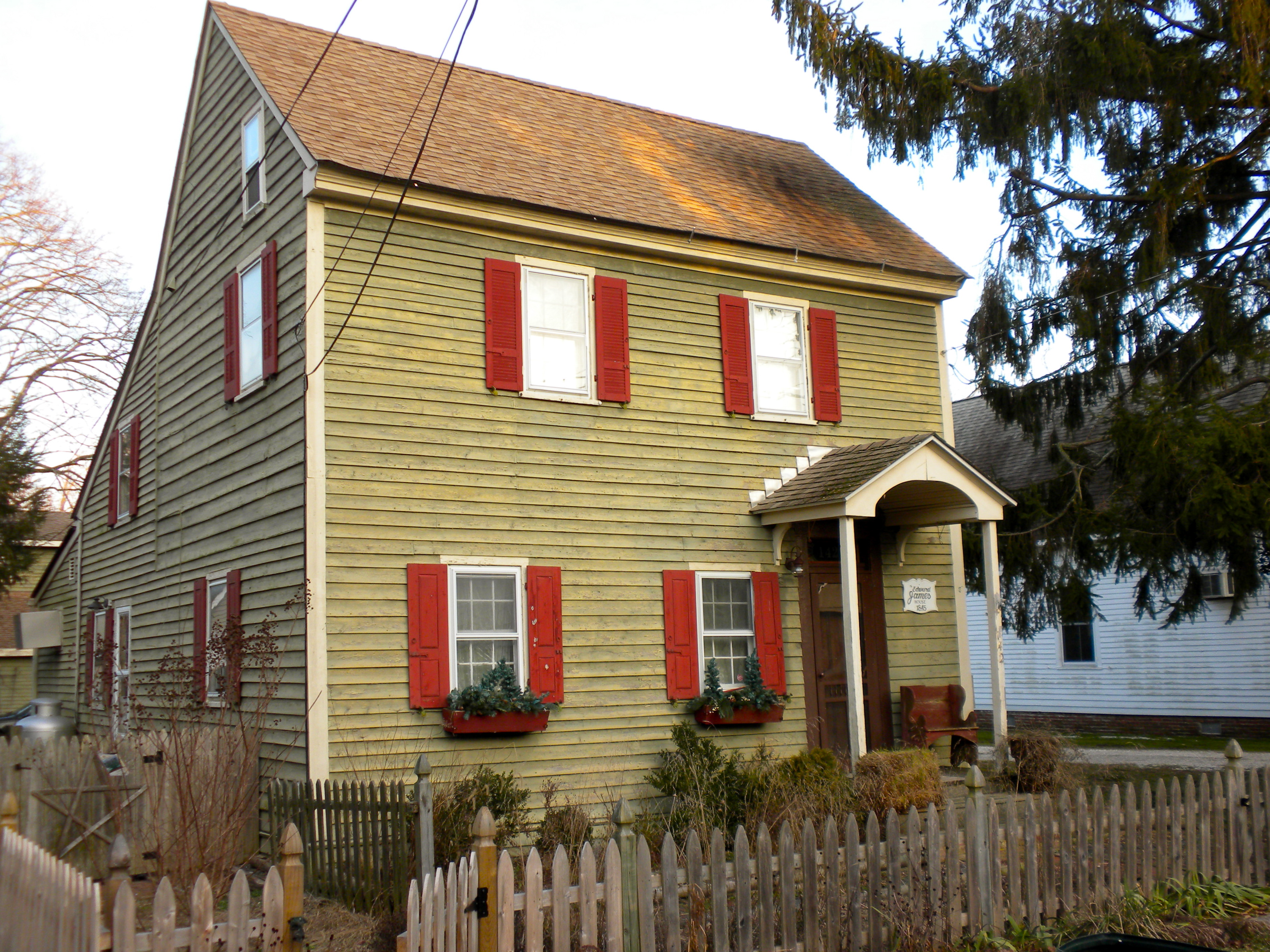 James House on Main Street in Dennisville, Cape May County (Upper Township), New Jersey. Built 1848. Part of the Dennisville Historic District on the NRHP.